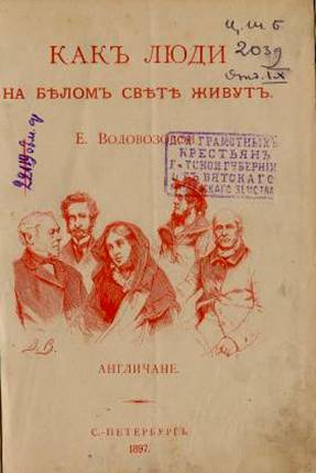 Cover of the book «How do people in the world live. Englishmen.» Author - Vodovozova E.N. Illustrations - Vasnetsov V.M. The library name Herzen. Kirov.